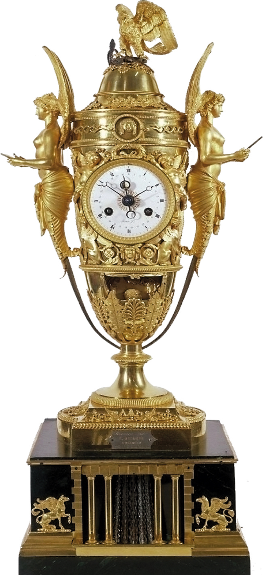 Napoleon's timepiece in the shape of an amphora (1806), equipped with an eight-day movement, it displays the hours, minutes and date. It has a mechanism displaying the moon phases inside the day hand, by means of a tiny ivory ball. Napoleon and Josephine are crowned Emperor and Empress as soon as the music box is activated. To achieve this, an ingenious mechanism physically places the imperial crown on their heads. Bronzier Pierre-Phillipe Thomire, movement Louis Moinet. Can be admired at the National Museum from Carillon to Street organ NL – Utrecht